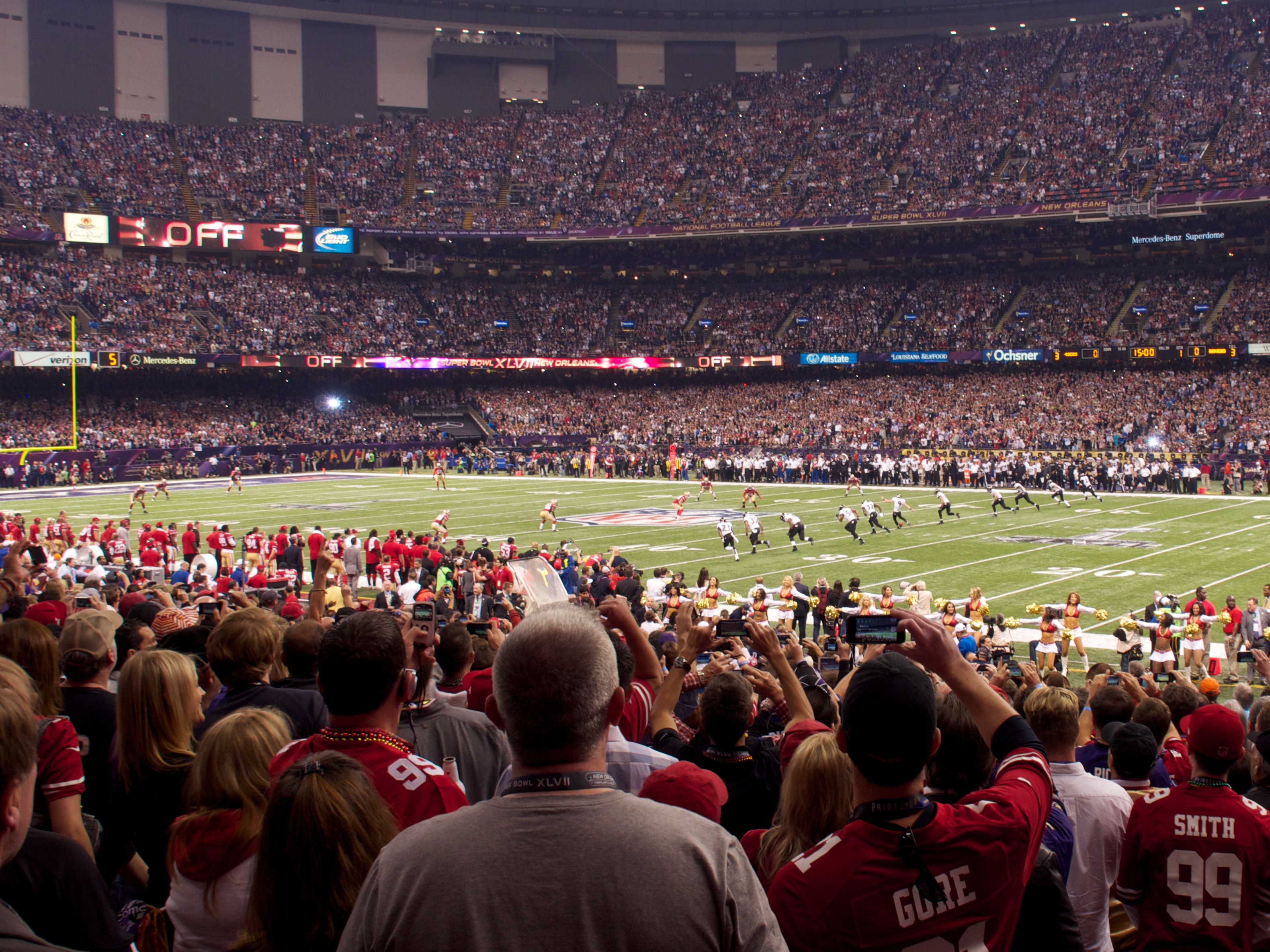 Super Bowl XLVII Kick Off